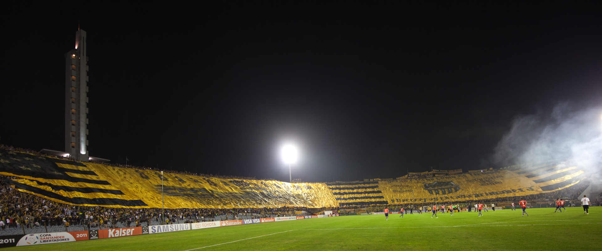 Peñarol fans with the largest flag ever made for a football game.